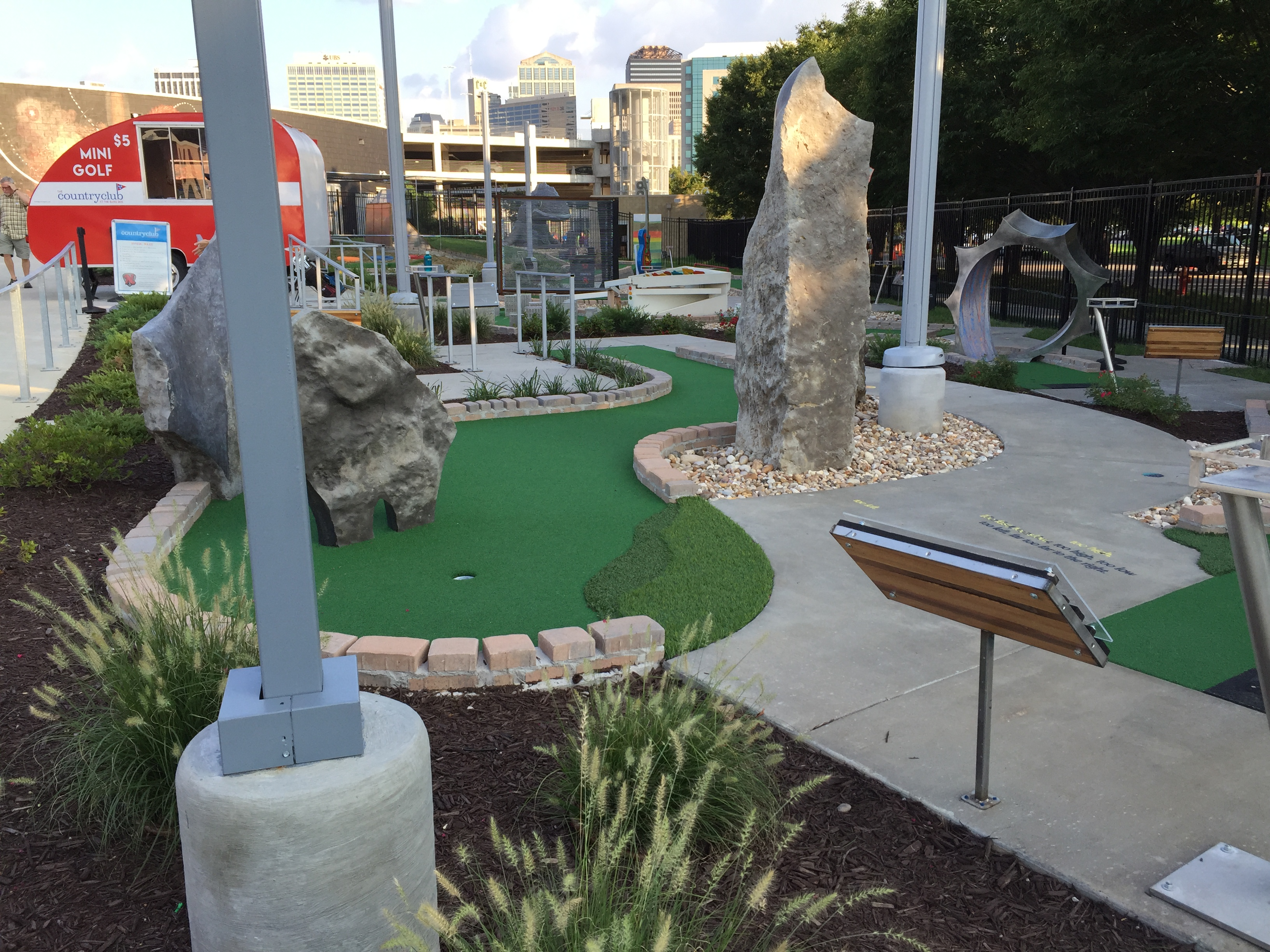 The Country Club at The Band Box, a 9-hole miniature golf course at First Tennessee Park in Nashville, Tennessee